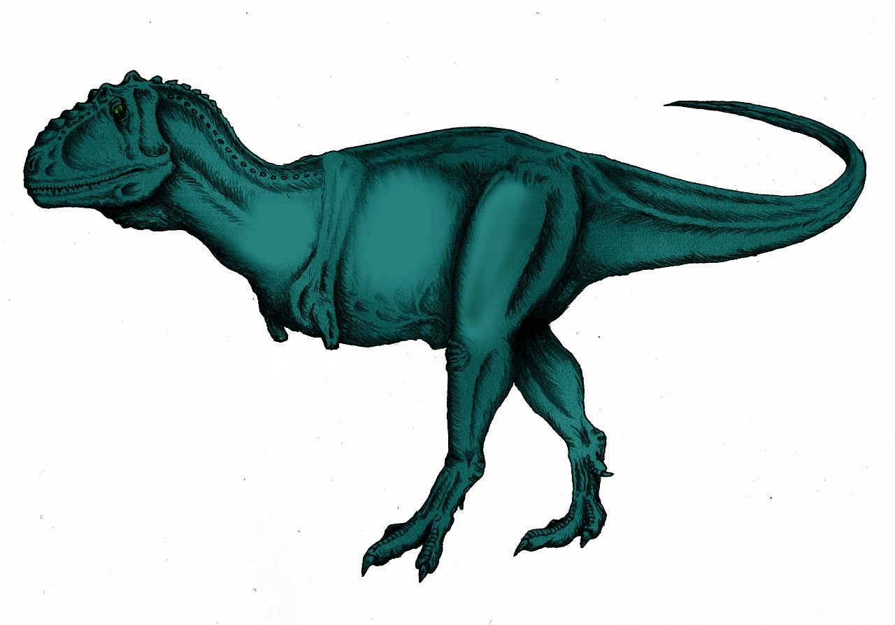 Restoration of Ekrixinatosaurus, a theropod dinosaur